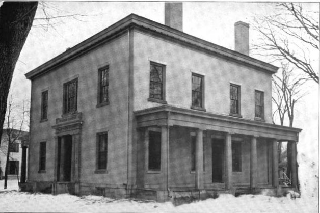 Public library, Massachusetts